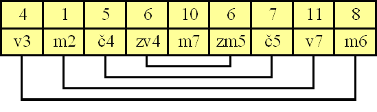 Intervals in a symetrical chord (example) by: Ziga 19:01, 13 February 2007 (UTC)